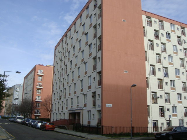 Blocks of flats in the Regent's Park Estate I found the symmetry of these blocks in Camden very appealing.